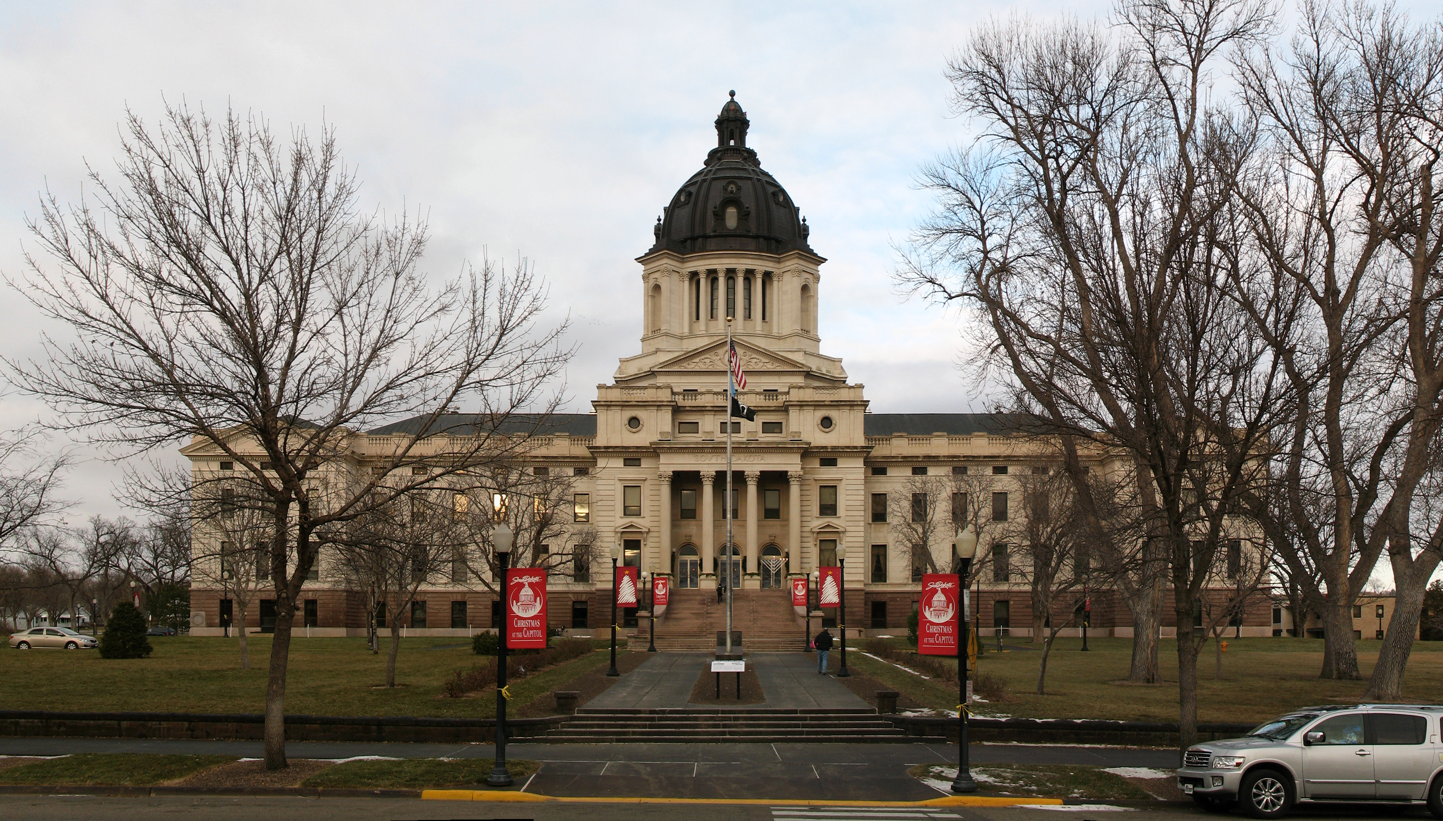 The South Dakota State Capitol building in Pierre, South Dakota. This image was created with Hugin